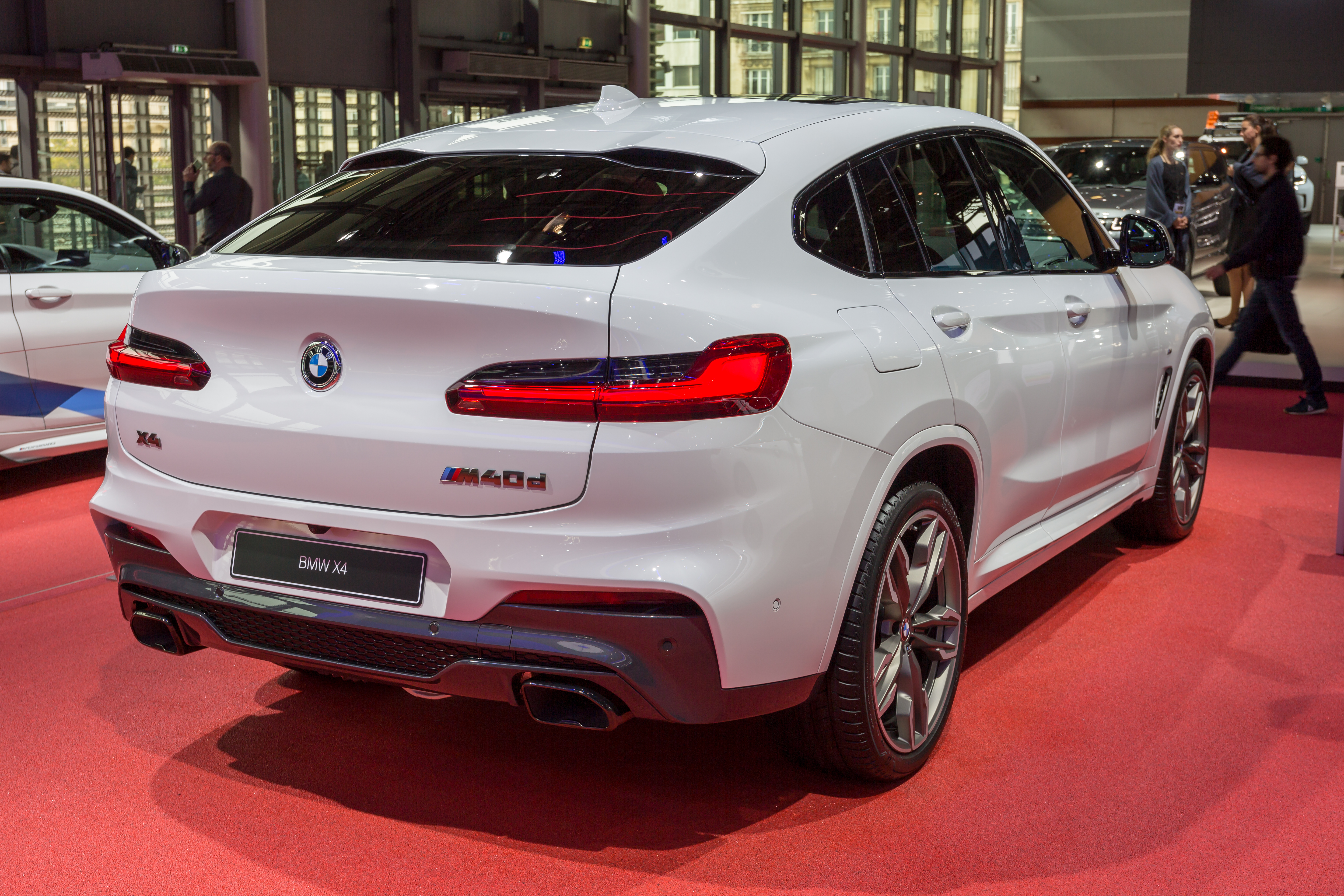 BMW X4 M40d, Mondial Paris Motor Show 2018